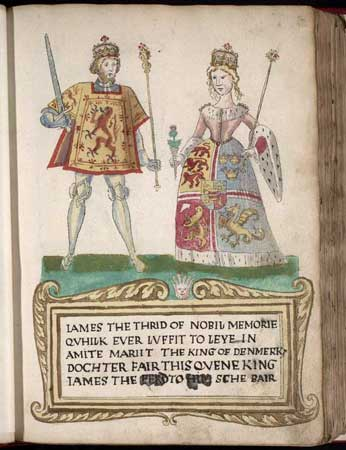 James III and his wife Margaret of Denmark